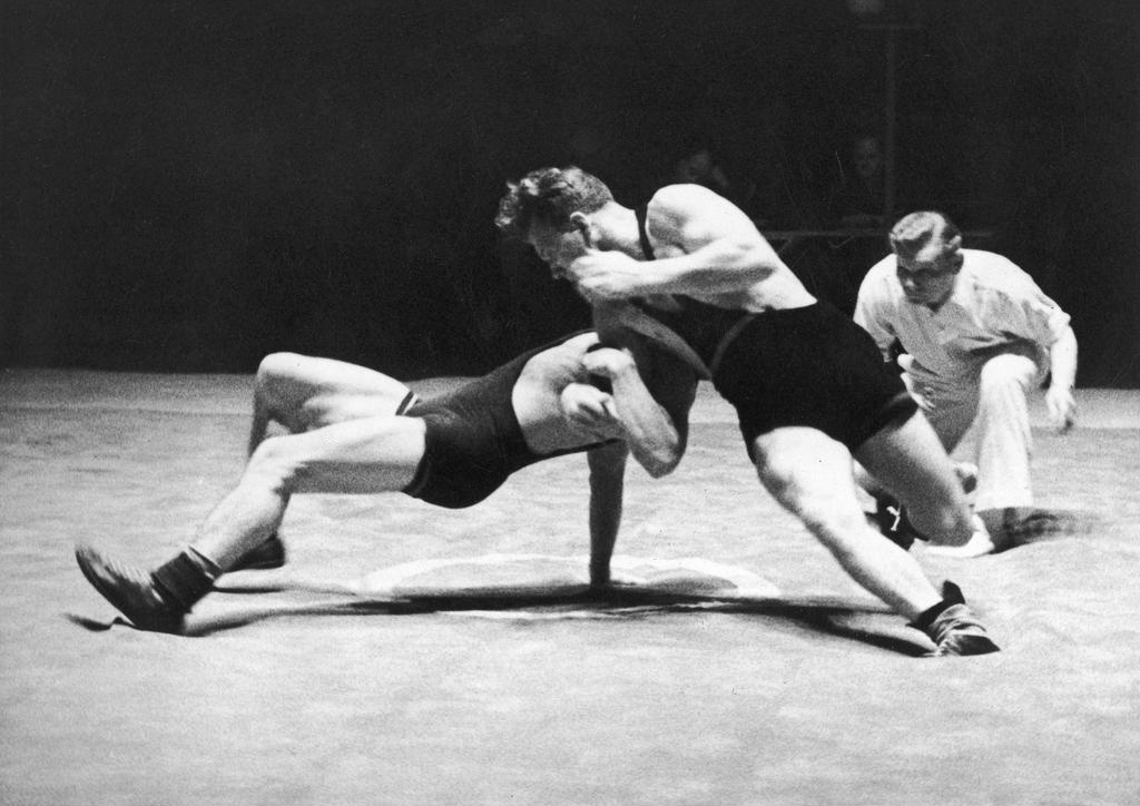 Voldemar Roolaan and Arvi Pikkusaari wrestling during and International tournament in Berlin, 1939.